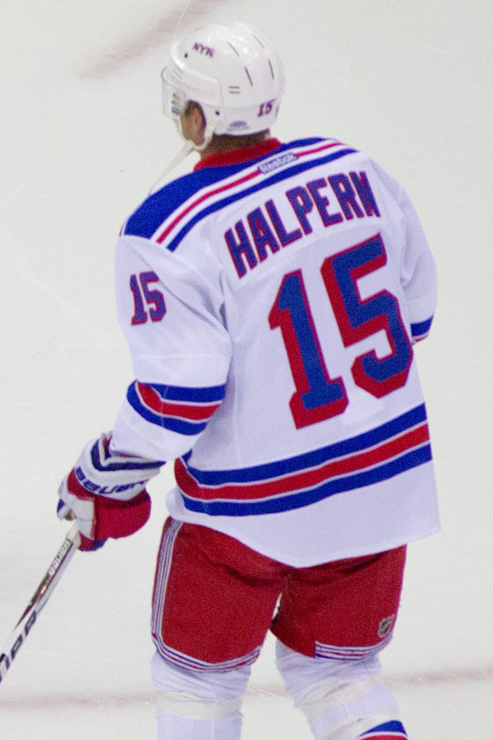 This photo was taken on March 8, 2013.